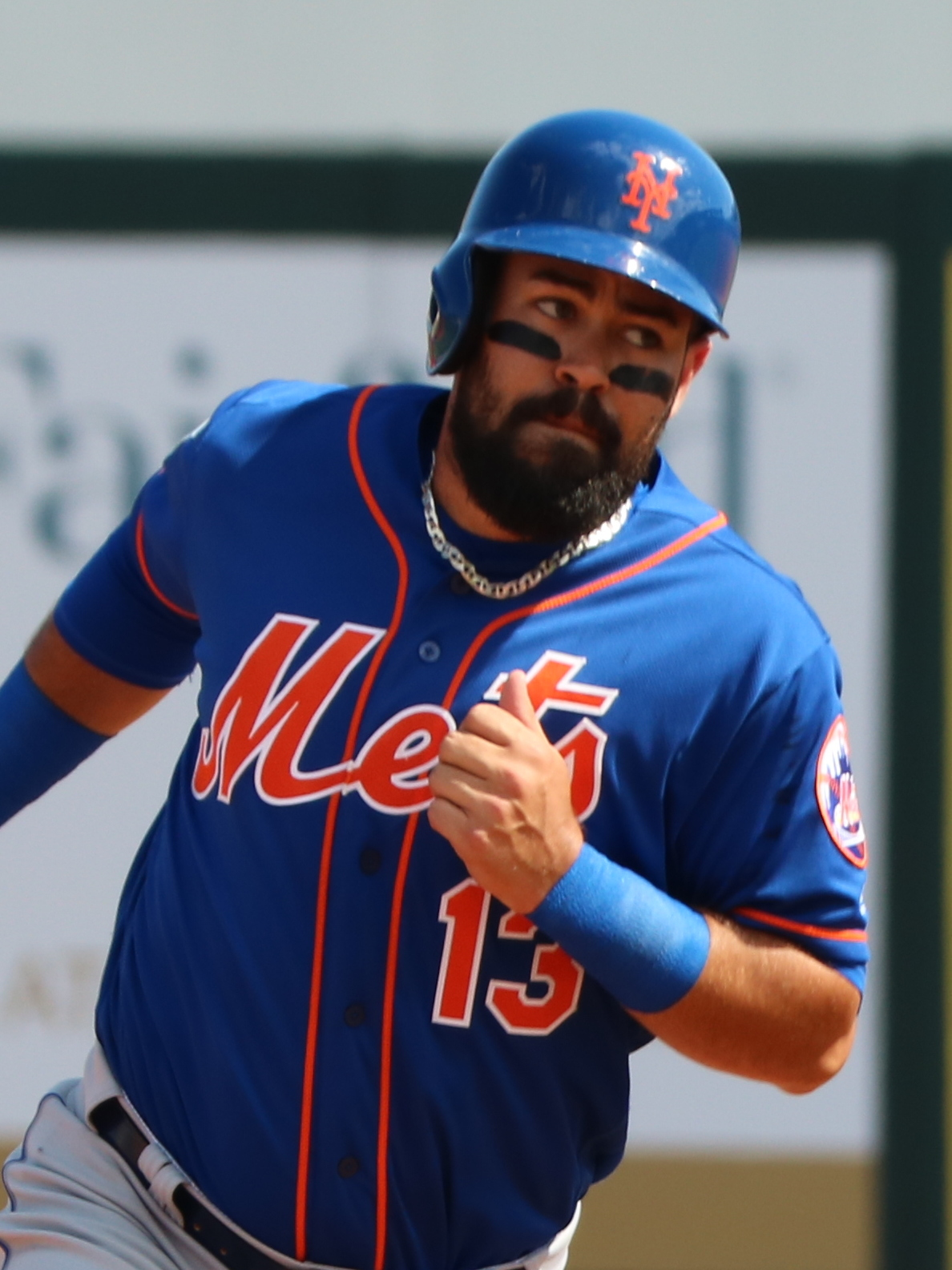 Luis Guillorme runs the bases, March 3, 2019